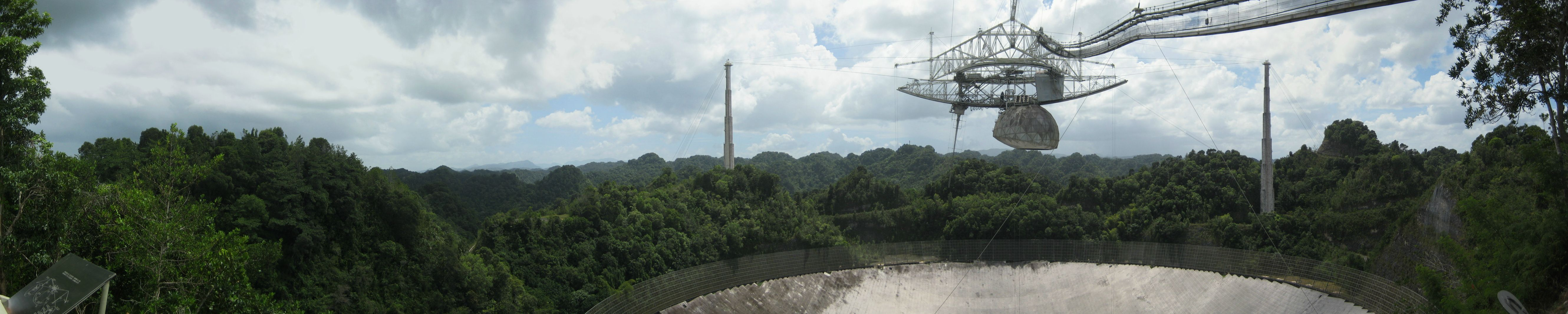 A wide panorama of the Arecibo radio telescope made from the observation deck.